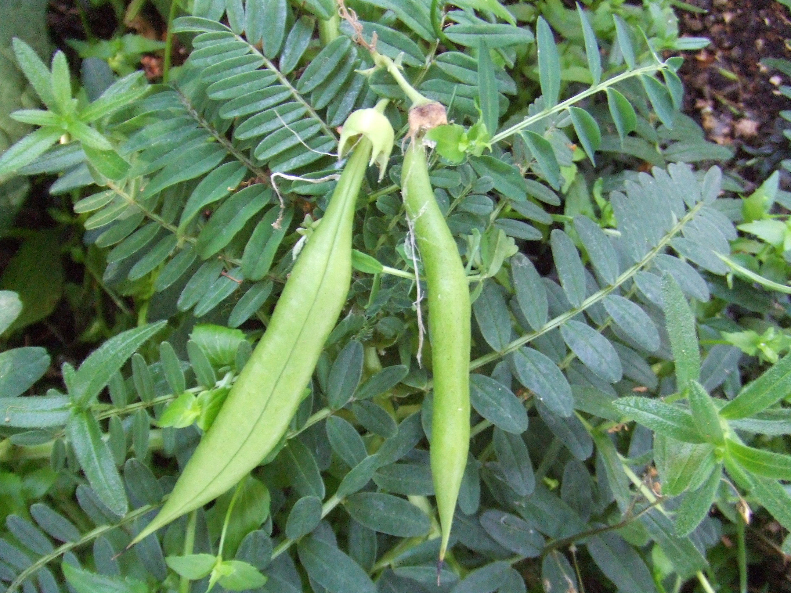 Fruits of Clianthus puniceus, picture taken at Botanische Tuin TU Delft, Delft, the Netherlands